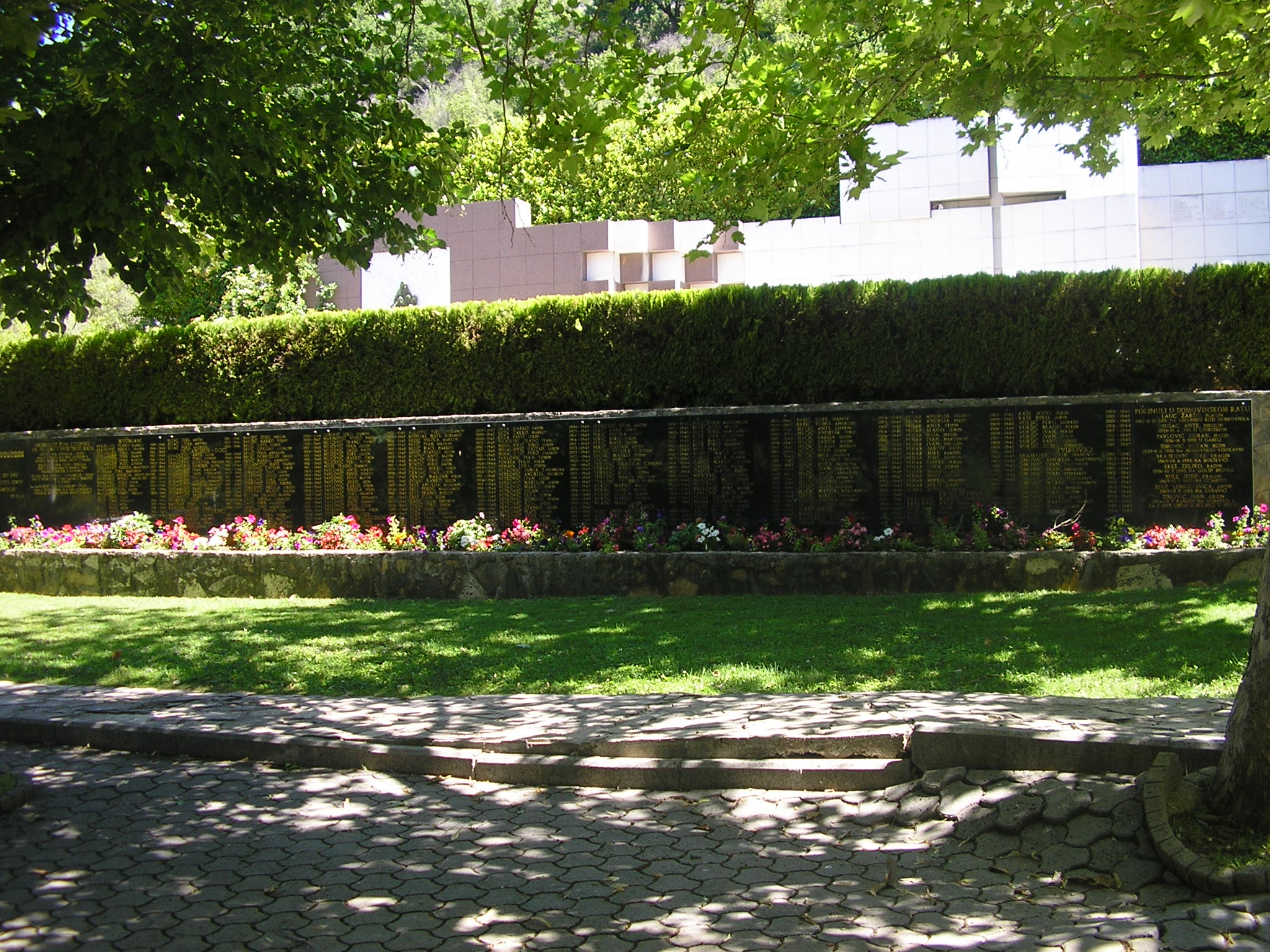 Sacred Heart of Jesus Christ Shrine in Studenci, war victims monument